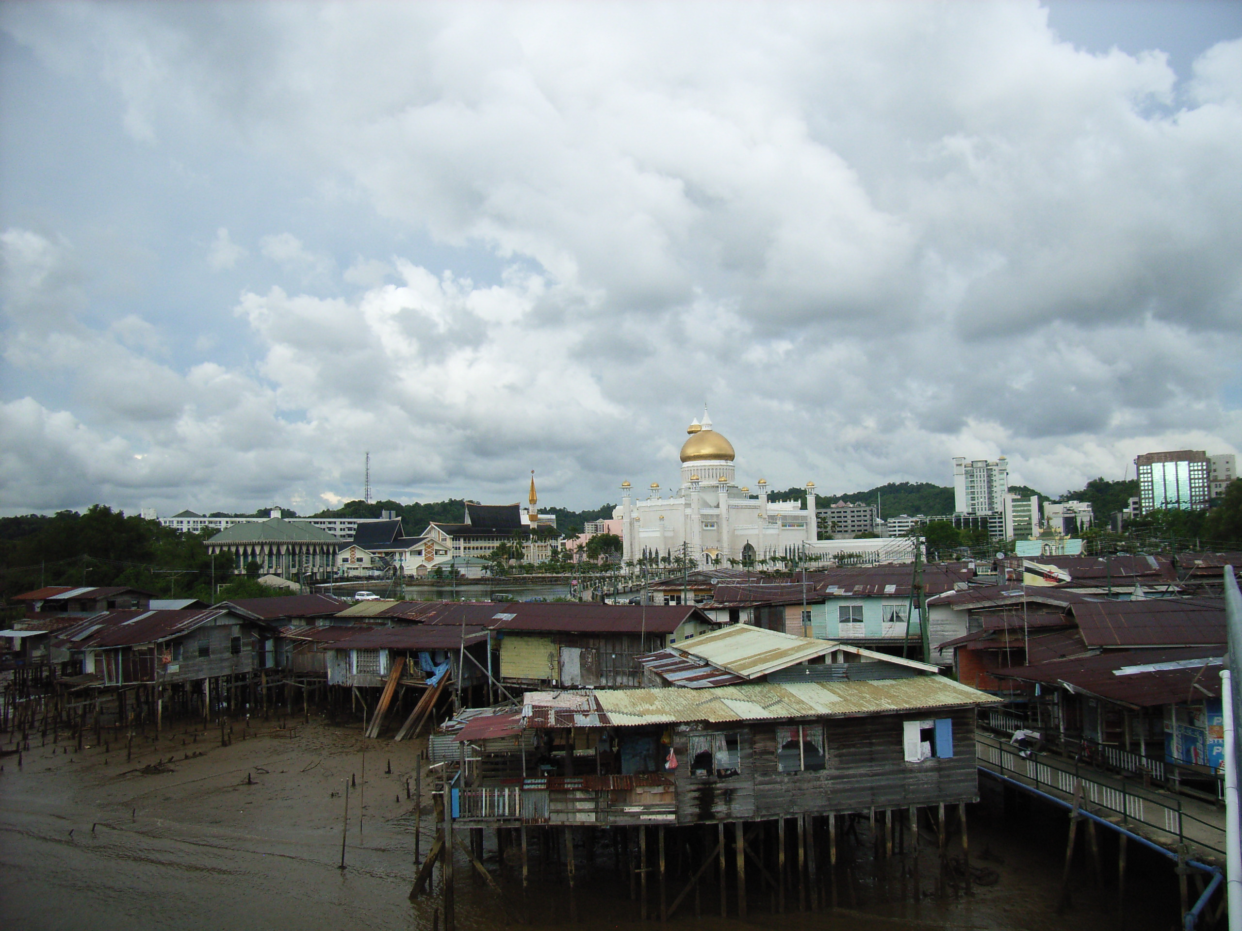 View of Bandar Seri Begawan and Kampung Ayer